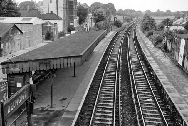 Belmont (Surrey) Station. View northward, towards Sutton; Sutton - Epsom Downs branch.